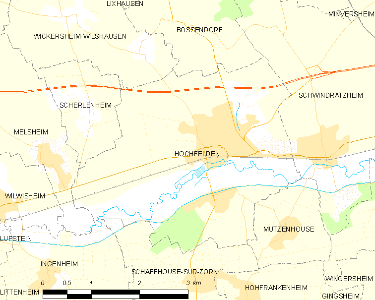 Map of French municipality